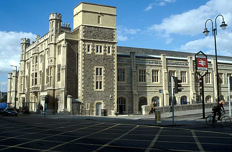 Frontage of Brunel's original Bristol Temple Meads station Photograph taken by user:rbrwr in October 2002